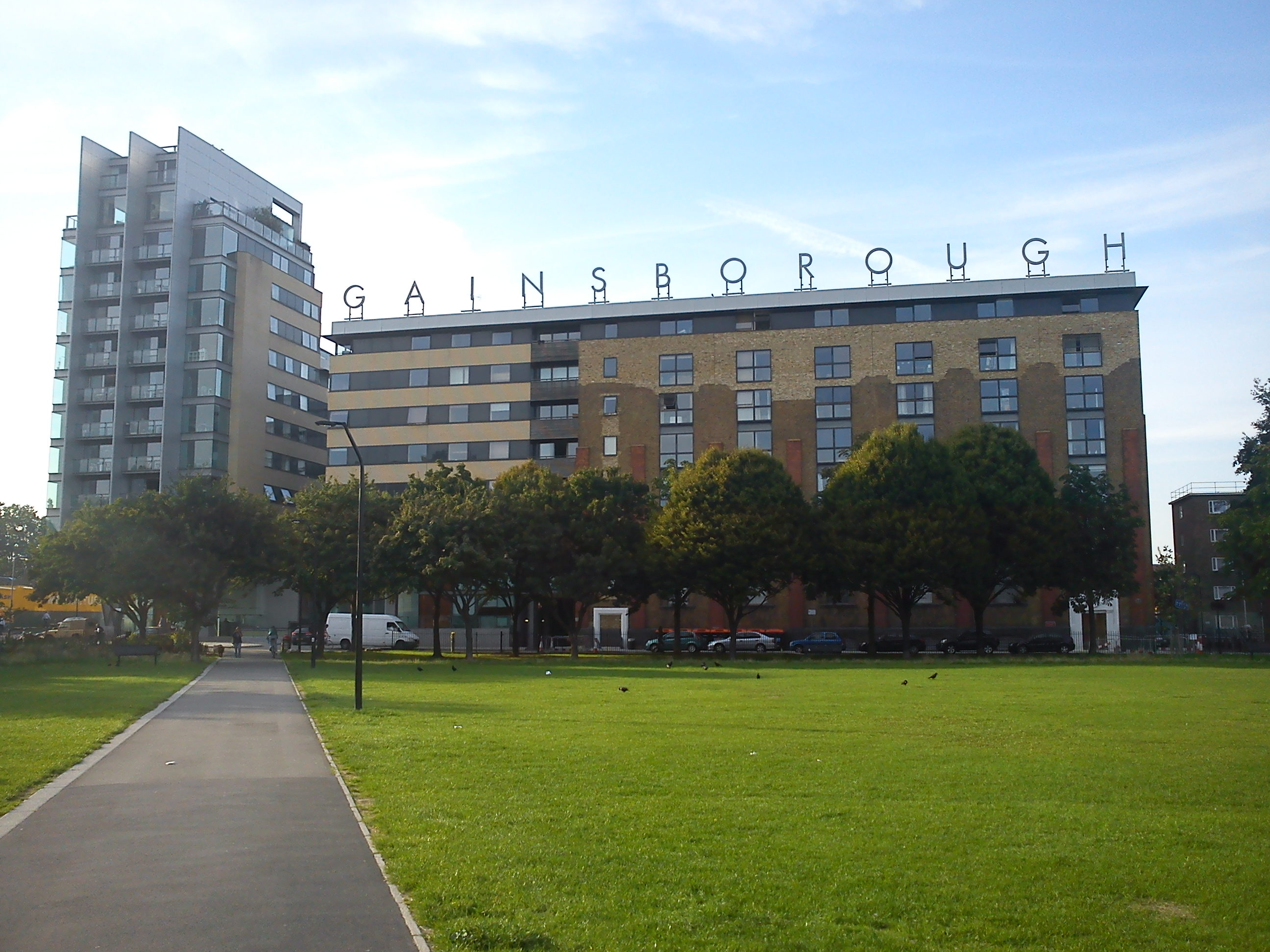 Gainsborough Studios site 2010